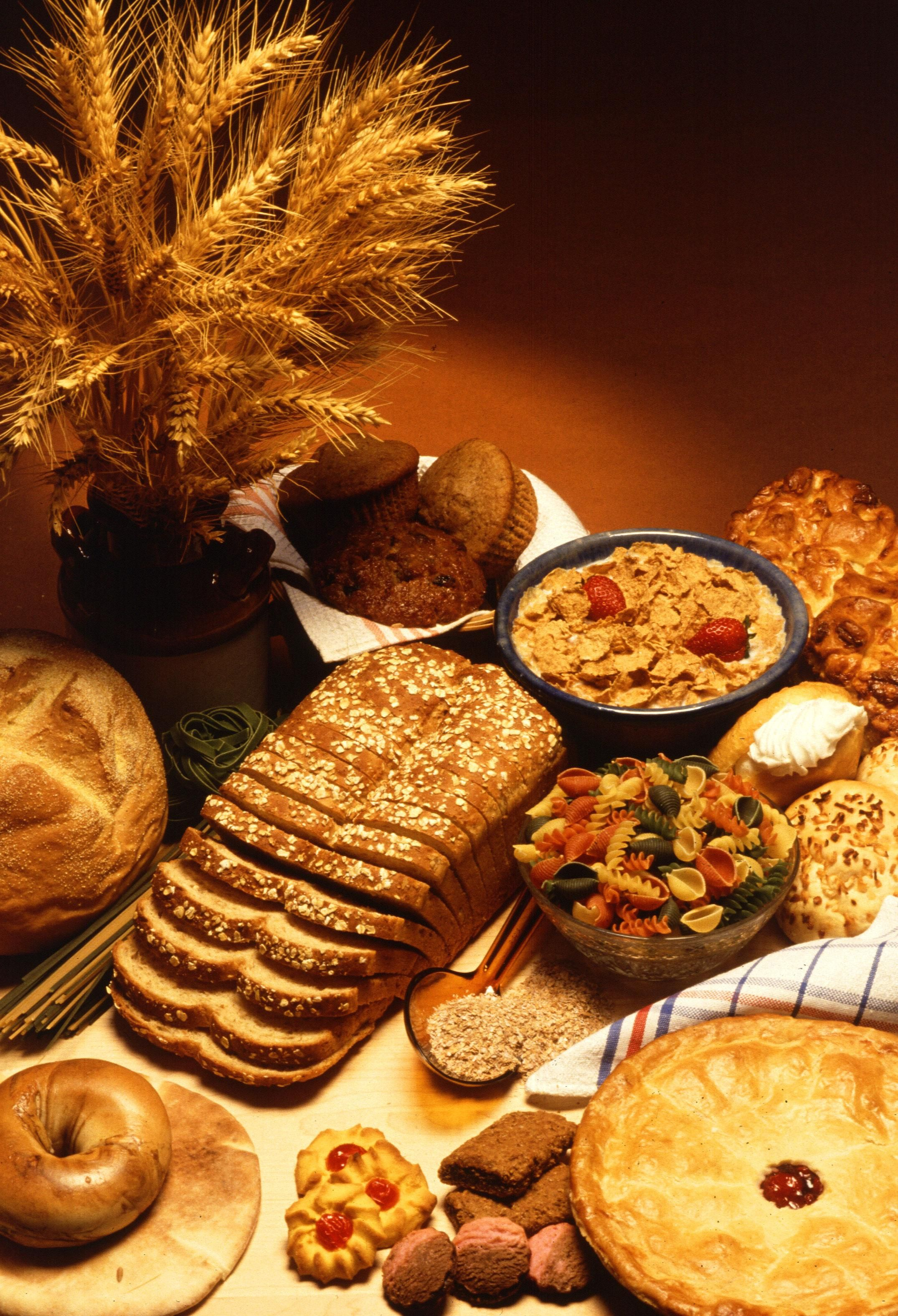 Image title: Wheat and wheat based foods Image from Public domain images website